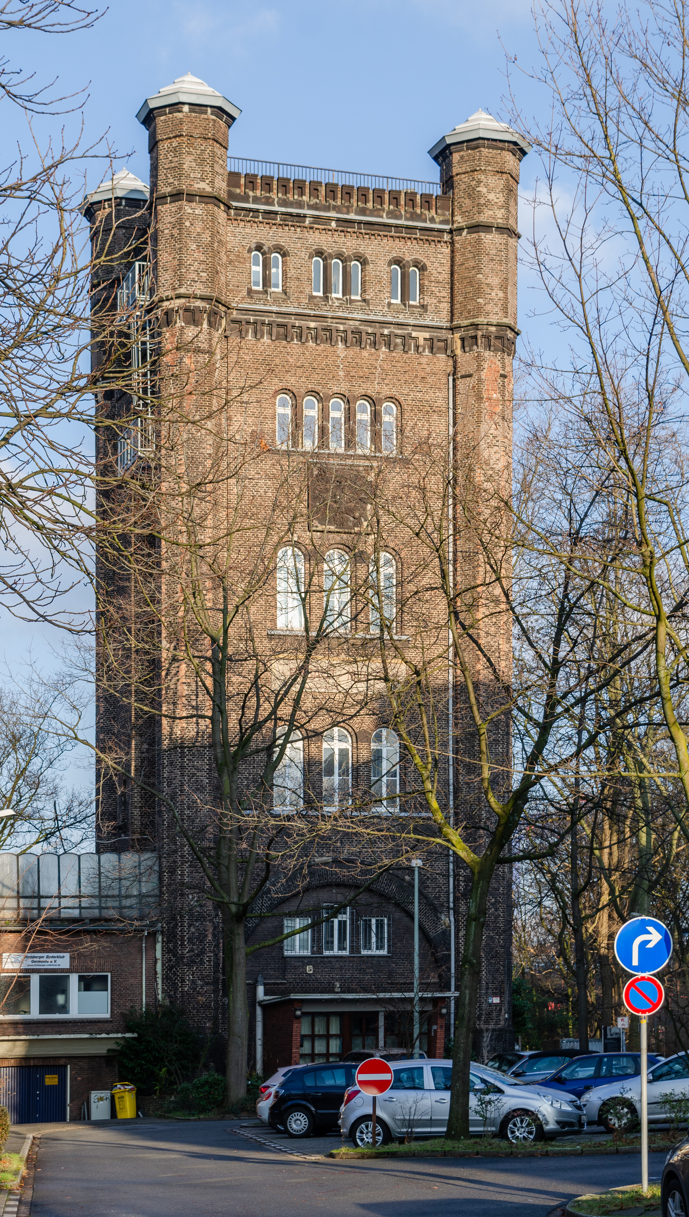 Duisburg (North Rhine-Westphalia, Germany) – borough Homberg/Ruhrort/Baerl, district Alt-Homberg – lifting tower of the former Ruhrort–Homberg train ferry